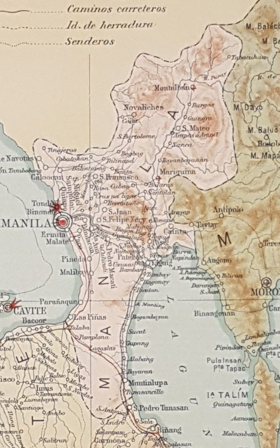 Province of Manila, Philippine Islands